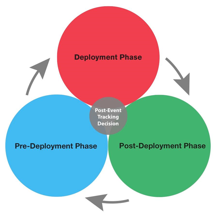 Phases to apply ERHMS framework